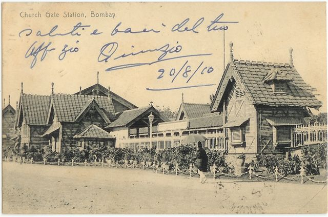 POST CARD of old Churchgate station(circa 1910), Mumbai, Maharashtra.